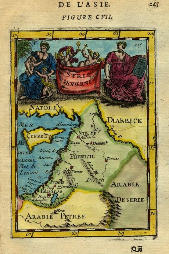 Map of Phenicie, Description de L'Universe (Alain Manesson Mallet, 1683).jpg